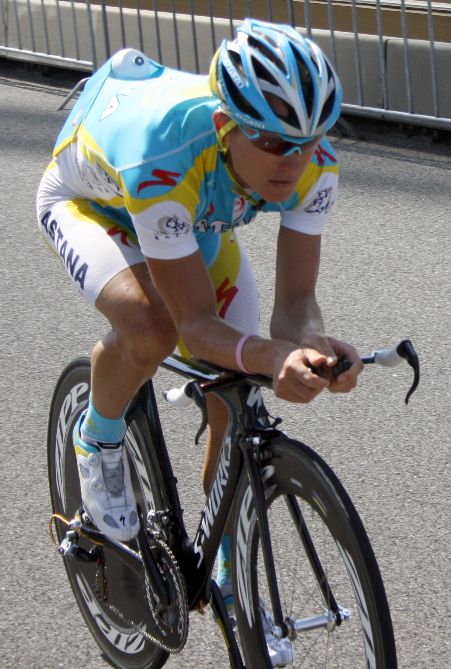 Alexander Vinokourov training for the prologue of the 2010 Tour de France in Rotterdam